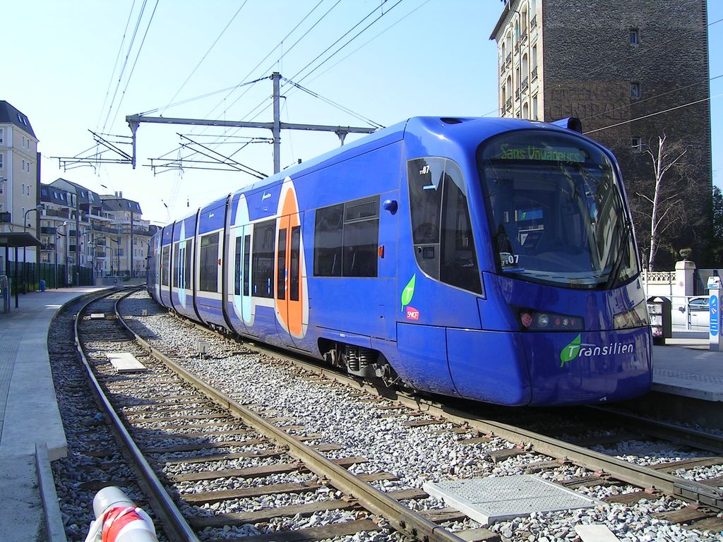 Tram Train T4 Gare de Gargan Livry-Gargan Photo personnelle (own work) de Marianna